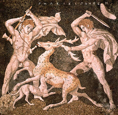 A deer hunt, detail from the mosaic floor signed Gnosis in the 'House of the Abduction of Helen' at Pella, Greece (ancient Macedonia), late 4th century BC, Pella Archaeological Museum. Signed "Gnosis made it". The figure on the right is possibly Alexander the Great due to the date of the mosaic along with the depicted upsweep of his centrally-parted hair (anastole); the figure on the left wielding a double-edged axe (associated with Hephaistos) is perhaps Hephaestion, one of Alexander's loyal companions. For further infromation, see Chugg, Andrew (2006). Alexander's Lovers. Raleigh, N.C.: Lulu. ISBN 978-1-4116-9960-1, pp 78-79.